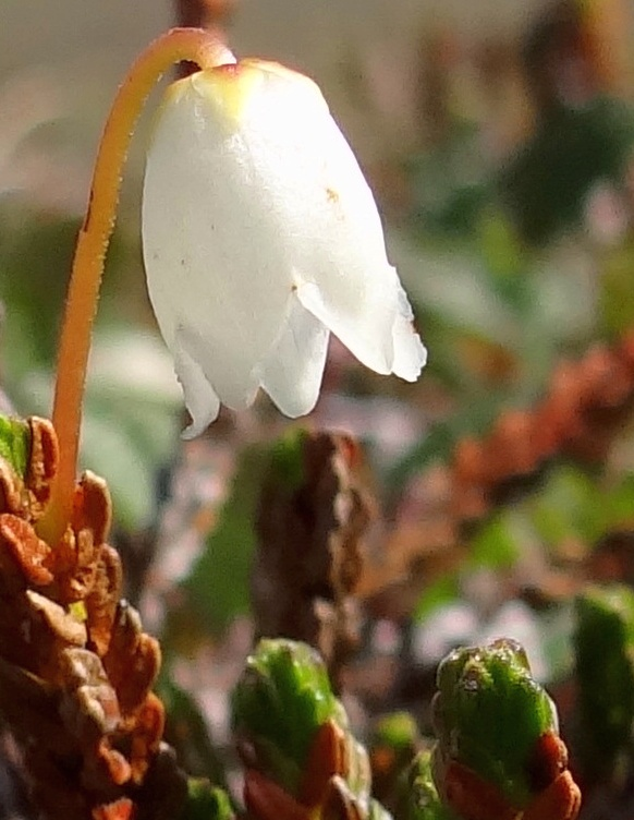 Arctic bell-heather in Northern Norway.